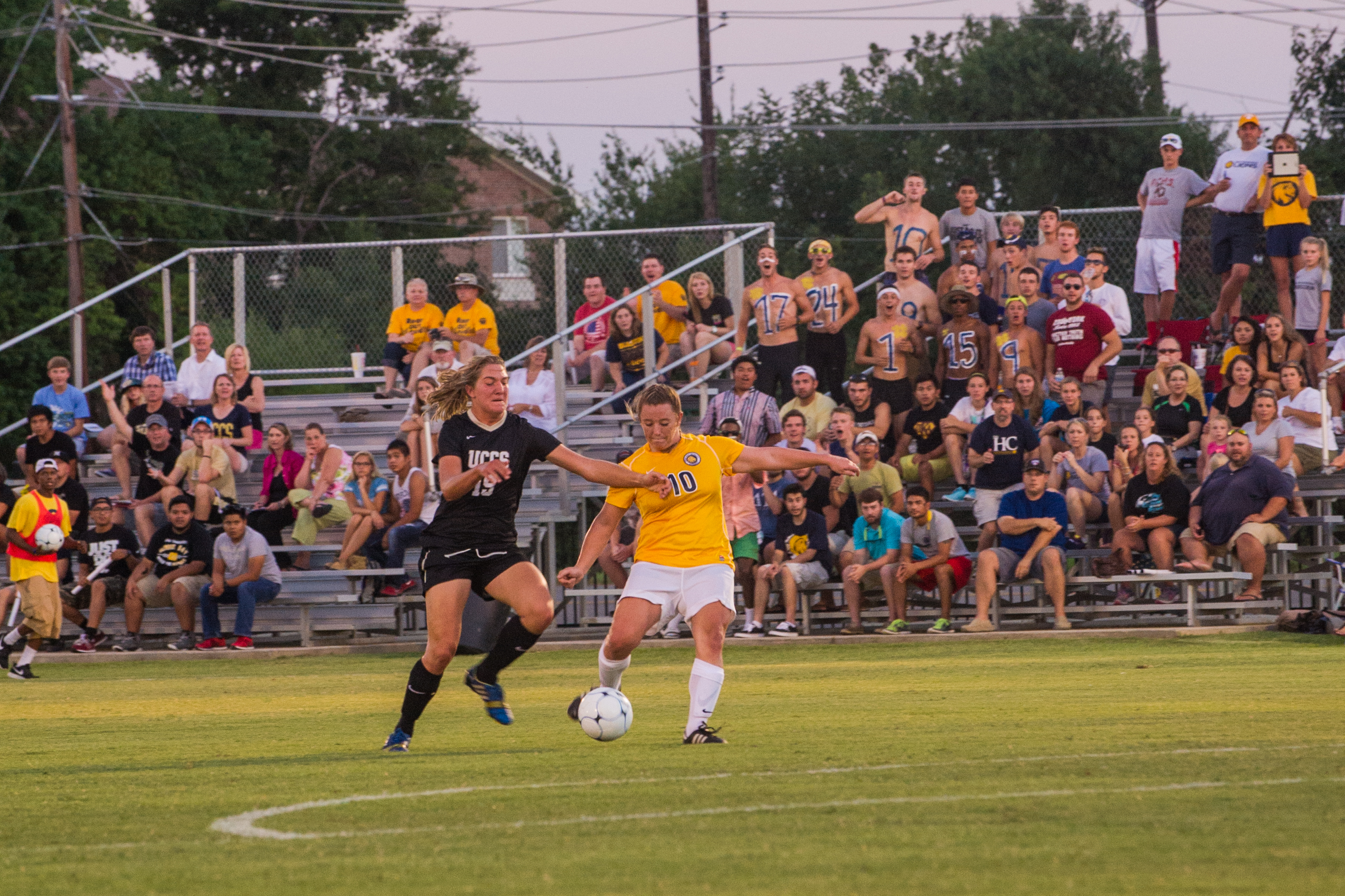 Athletics-Soccer vs UC-CS-0319 2014–15 Texas A&M–Commerce Lions women's soccer team